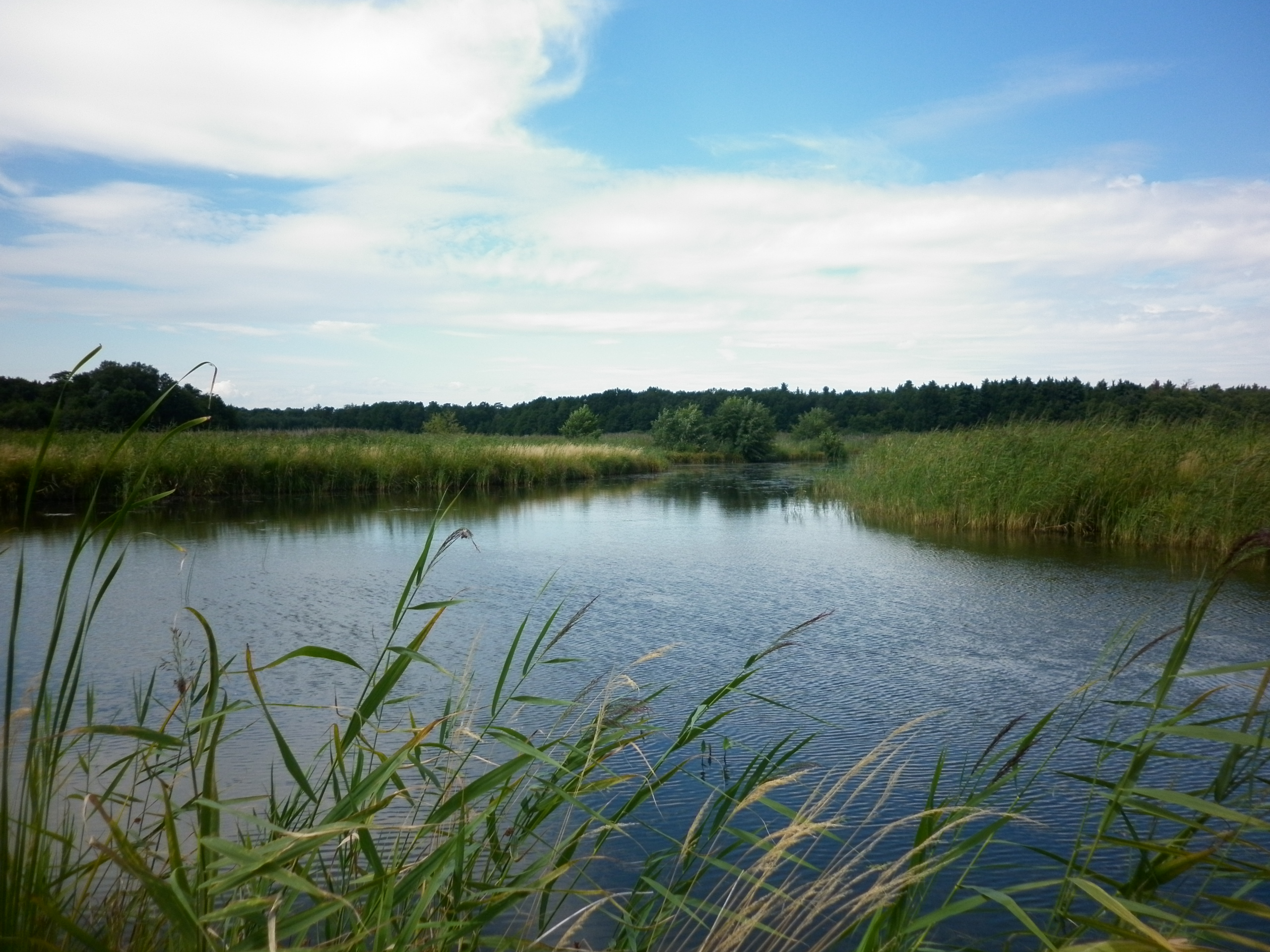 Nature reserve "Baroch" in Pardubice District, Czech Republic. Old pond with surrouding wet meadows - rare plant and bird species